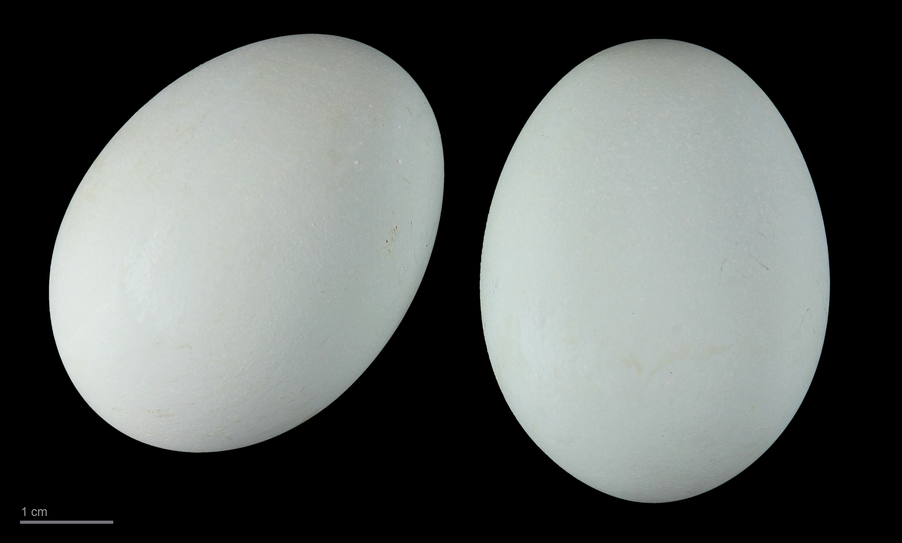 Eggs of western reef heron Two specimens of the same spawn ; collection of Jacques Perrin de Brichambaut.